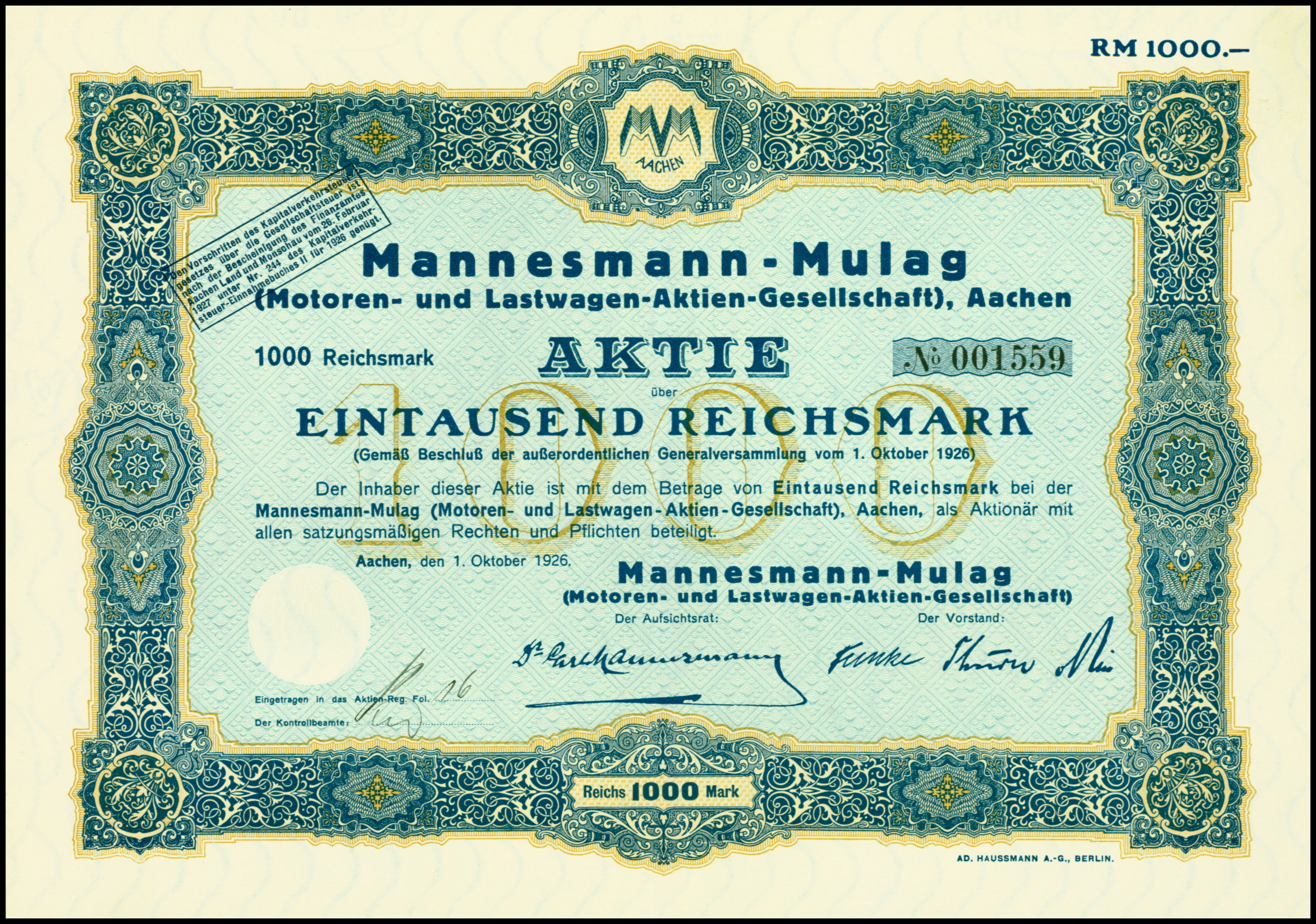 Share of the Mannesmann-Mulag, issued 1. October 1926